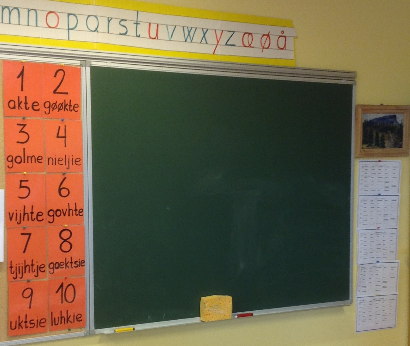 Blackboard at Åarjel-saemiej skuvle (southern sami school), Snåsa with numbers 1-10 in South sami language